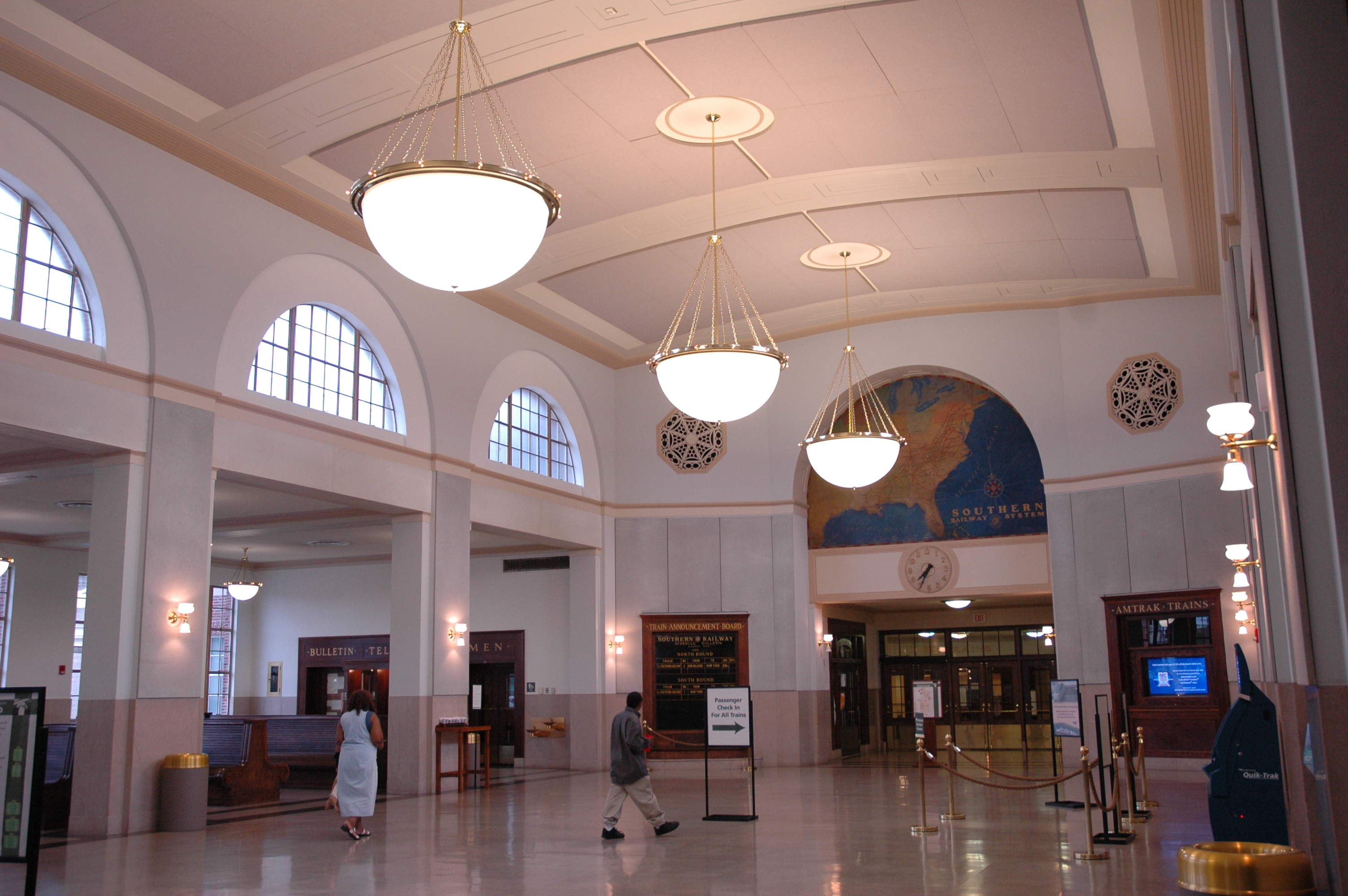 Photo of the inside of the Greensboro, NC, USA Amtrak station, it also is part of the J. Douglas Galyon Depot.